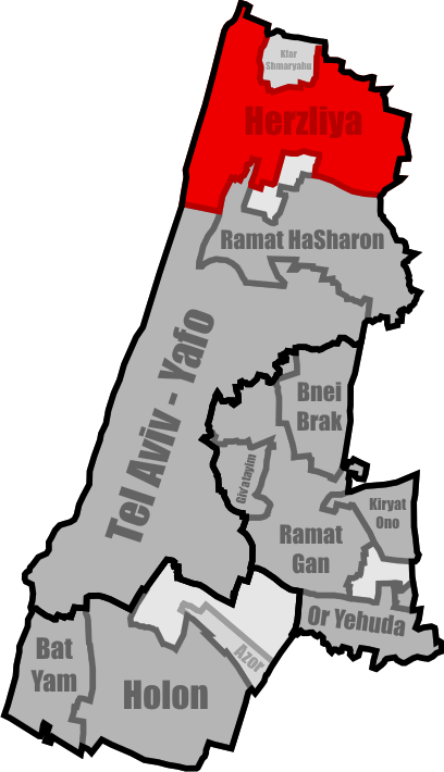 Location of Herzliya within the Tel Aviv District.